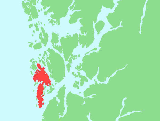 Locator map of Bømlo, Hordaland, Norway